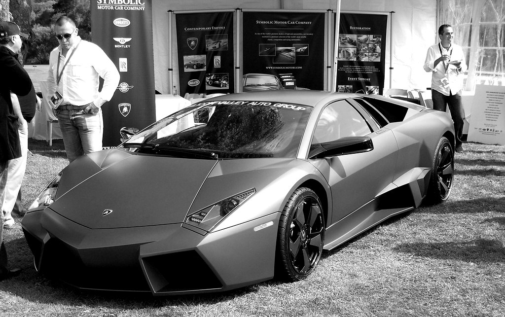 Lamborghini Reventón.